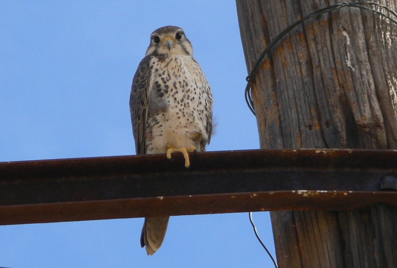 Prairie Falcon Falco mexicanus, Corrizo Plains National Monument in San Luis Obispo County, California